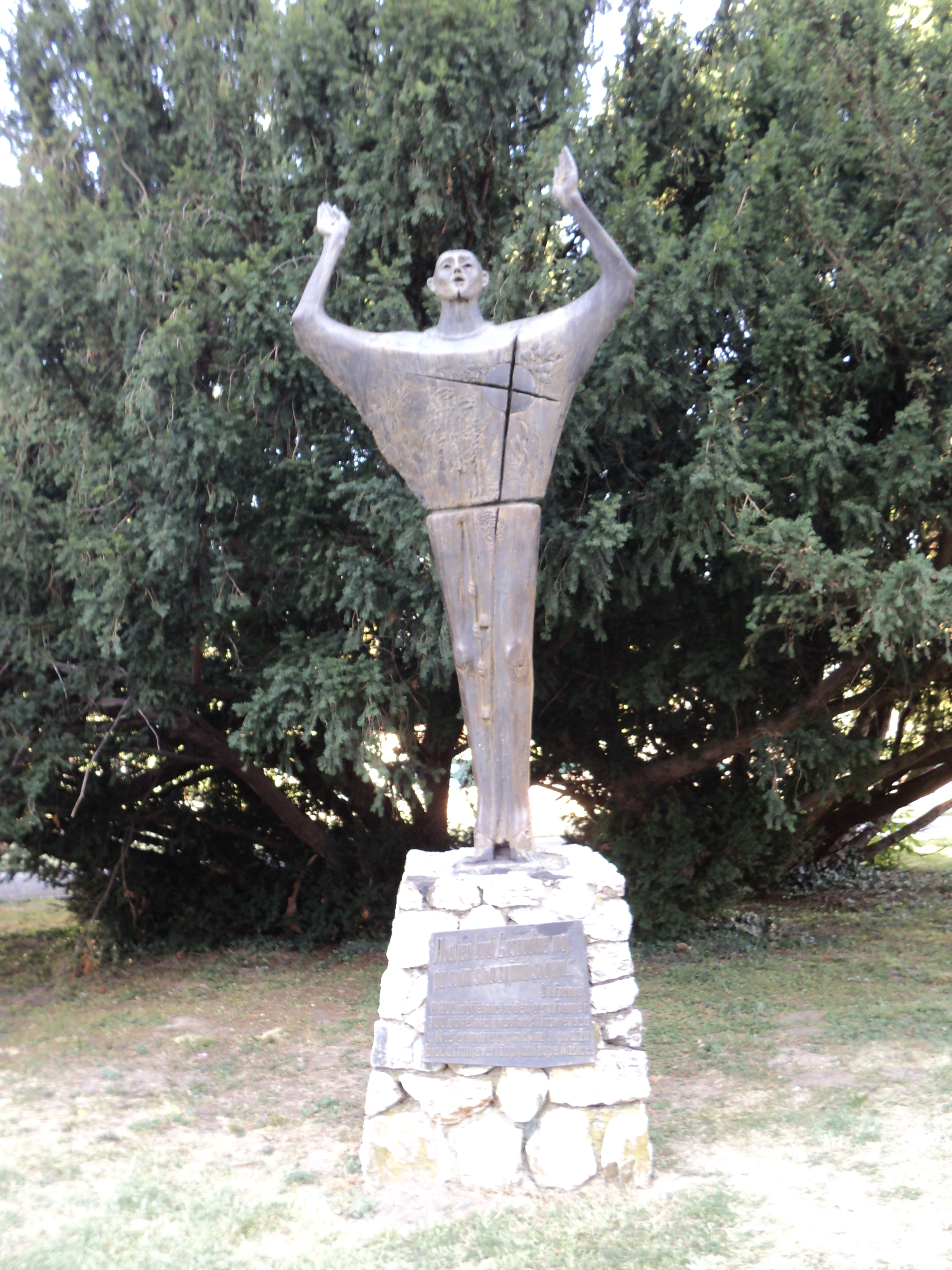 Monument to the Franciscans, Našice.